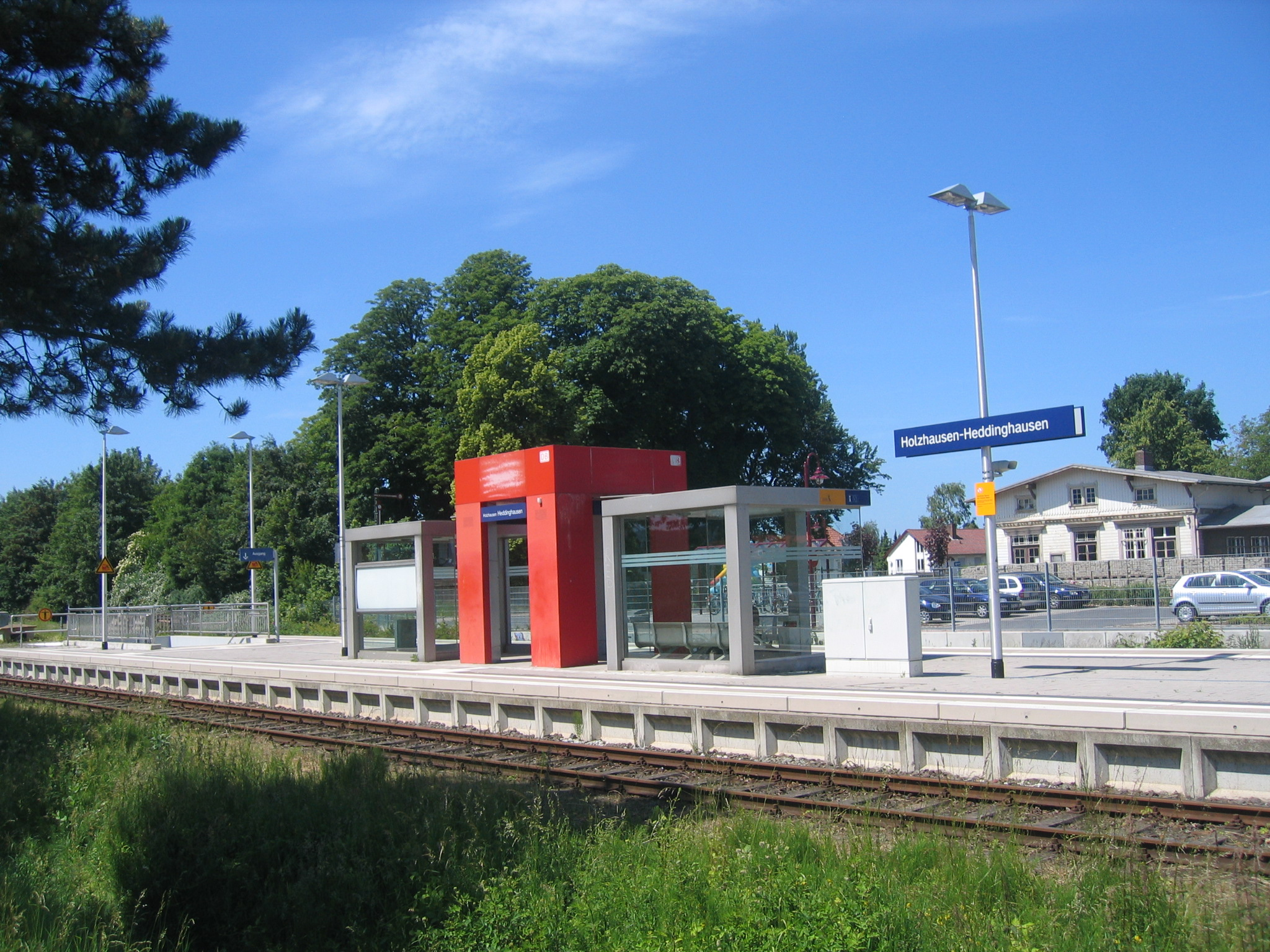 Train station in Preußisch Oldendorf, District of Minden-Lübbecke, North Rhine-Westphalia, Germany.